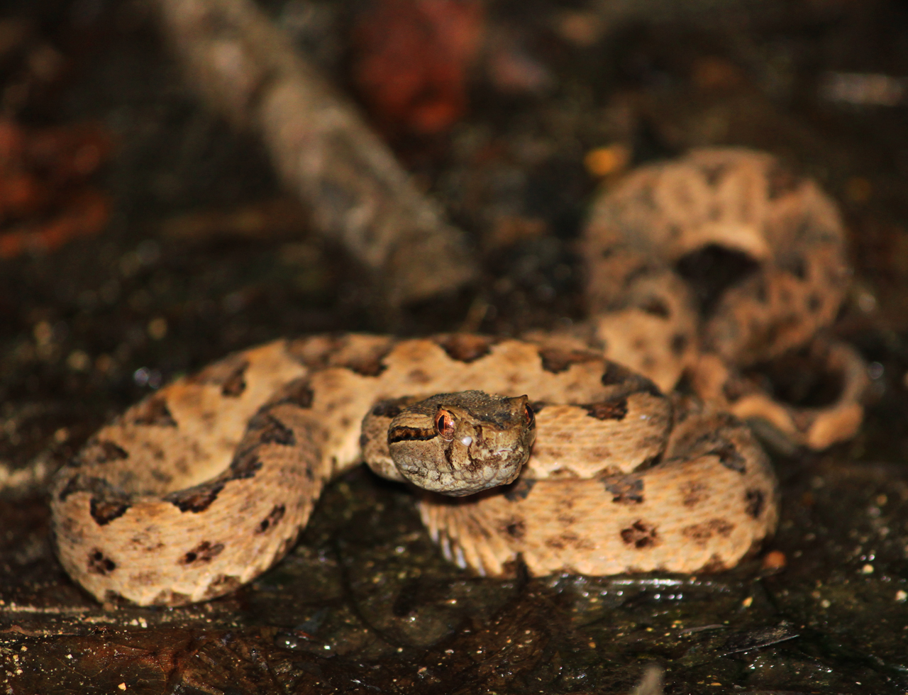 サキシマハブ（Protobothrops elegans） at Kohama Island, Okinawa.